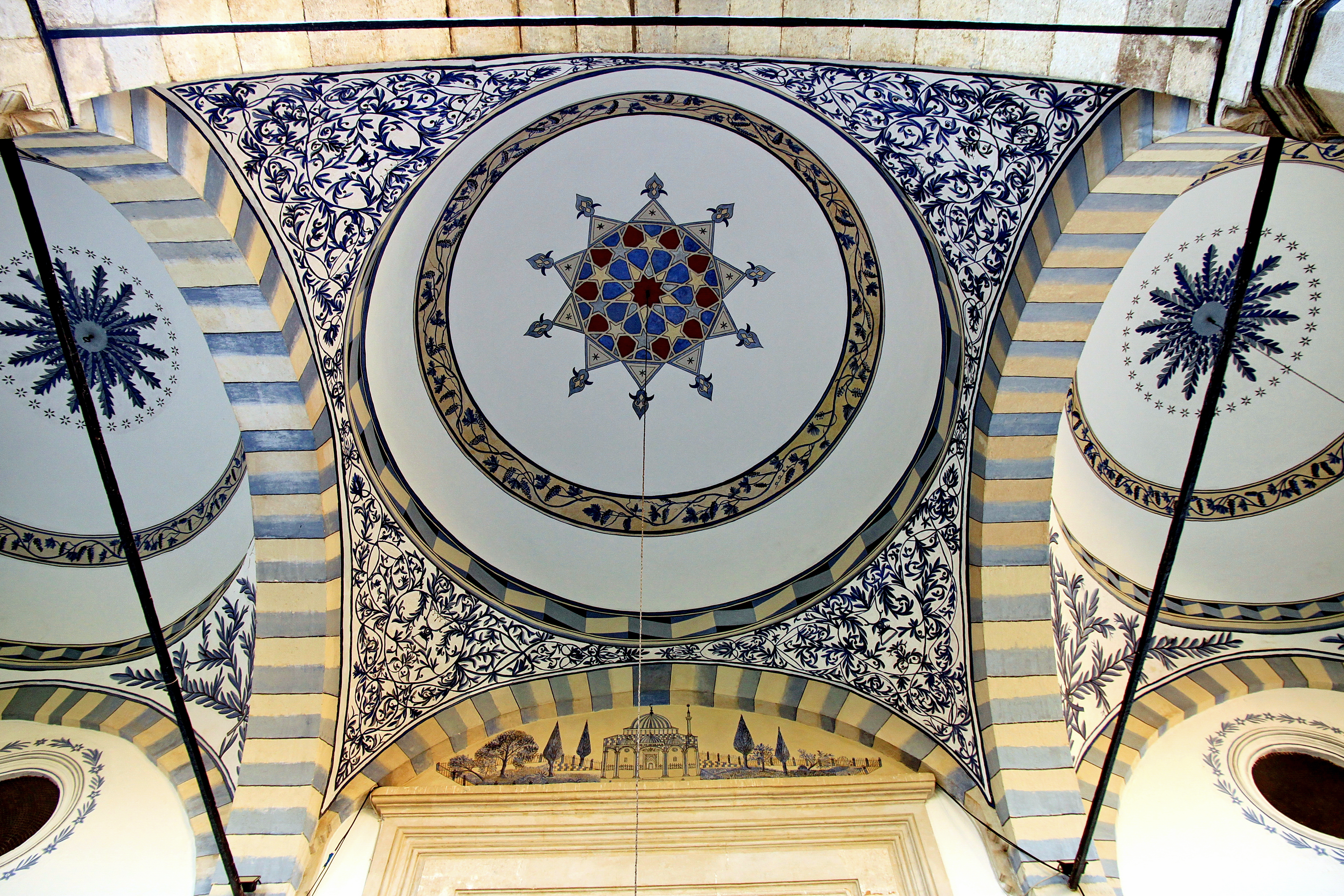 Sultan Mehmet Mosque (Fatih Mosque). Pristina, Kosovo